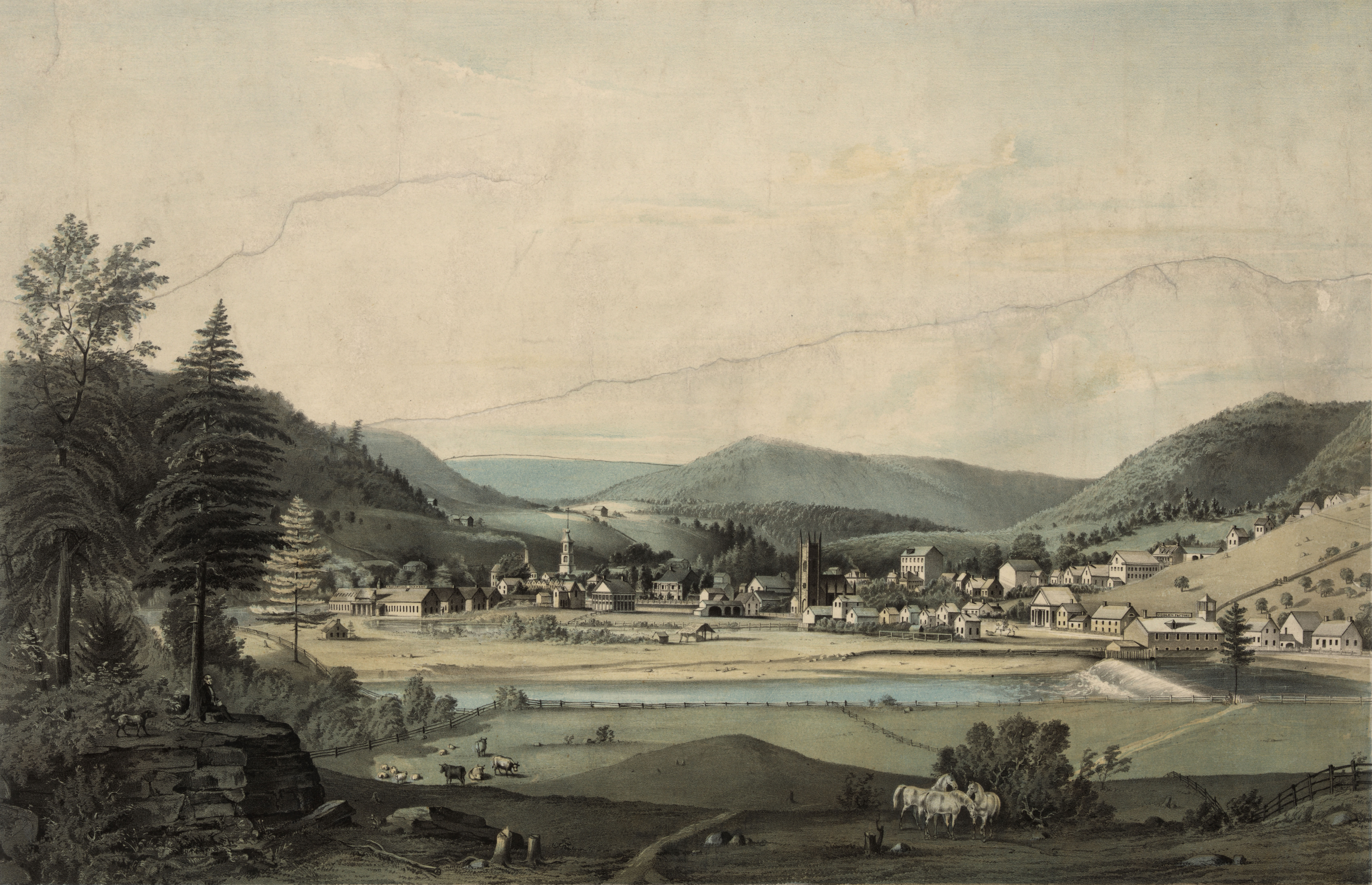 A drawing and lithograph of Prattsville from 1844. The text below the drawing reads: VIEW OF PRATTSVILLE, GREENE Co. N. Y. 1844. Presidence of the Hon. Zadock Pratt. A. M. Prattsville Tannery, BUILT IN 1825, SINCE WHICH ONE MILLION SIDES OF SOLE LEATHER, HAS BEEN TANNED WITH HEMLOCK BARK.